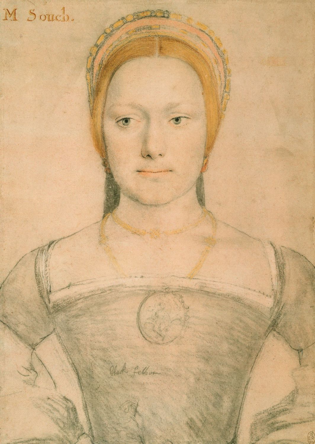 Portrait of M. Zouch. Black and coloured chalks, pen and ink on pink-primed paper, 29.6 × 21.2 cm, Royal Collection, Windsor Castle. Scholars are not sure whether "M. Souch" refers to Mary Zouch, a maid-of-honour to Jane Seymour, or, in abbreviation, to "Mistress Zouch", which could be either Jane Rogers, wife of Richard Zouch, heir of John, Lord Zouch of Haringworth, or Anne Gainsford, a lady-in-waiting to Anne Boleyn and wife of George Zouch of Codnor. The chalk seems to have been reinforced by later hands around the bodice and in other places, but the penwork and the flower apppear all Holbein. In the view of art historian Susan Foister, "This well-preserved drawing is exceptional for the salmon-and-yellow-coloured chalks used to represent both the sitter's colouring and in her headdress and dress". She holds a rose or carnation, perhaps signifying betrothal. Her brooch may show fortune sailing on dolphins or blind fortune seated on a weather-vane. References Susan Foister, Holbein in England, London: Tate, 2006, ISBN 1854376454, p. 148. K. T. Parker, The Drawings of Hans Holbein at Windsor Castle, Oxford: Phaidon, 1945, OCLC 822974, p. 56.